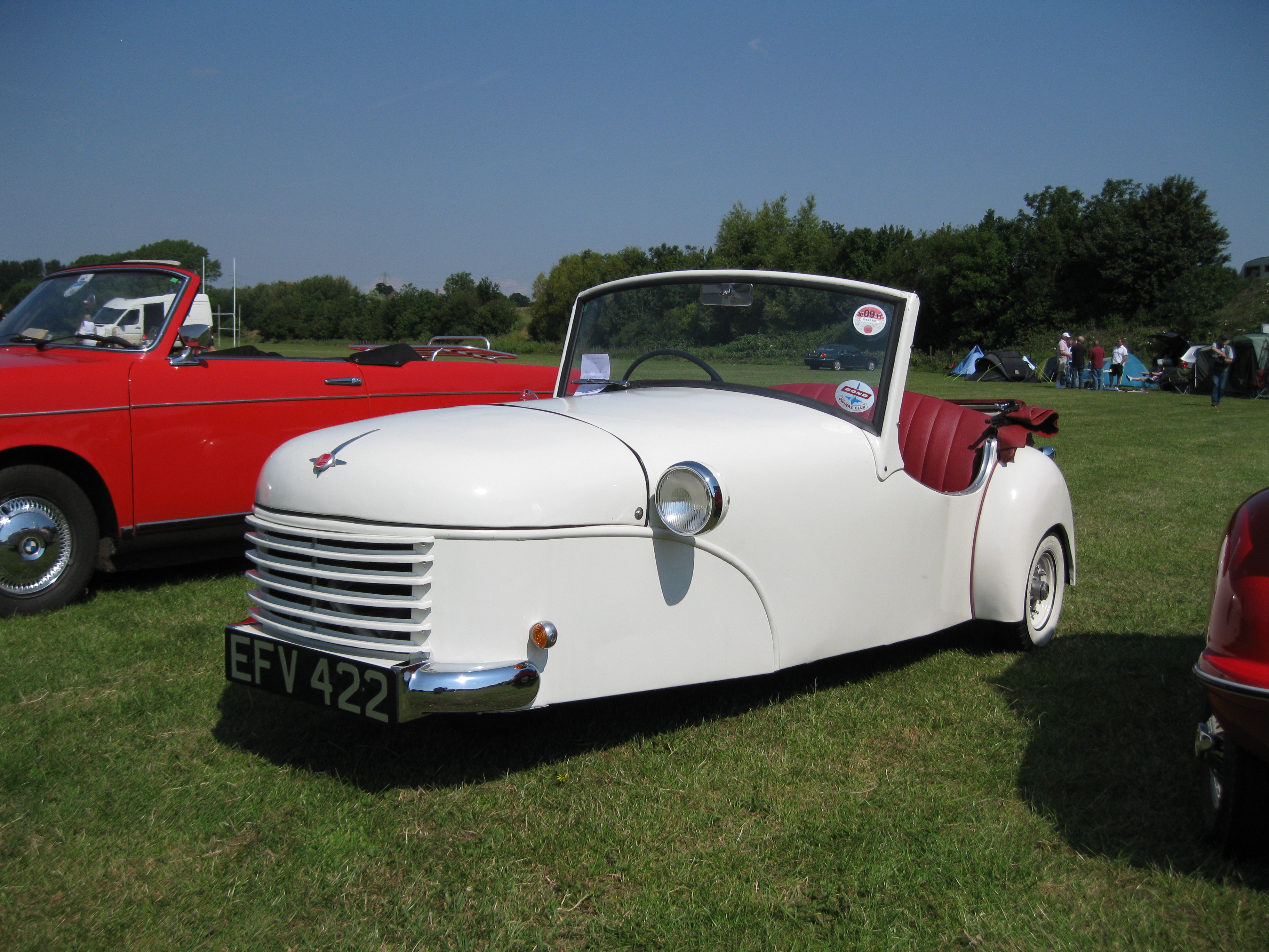 1951 Bond Minicar Mark A Tourer at the 2011 Bath Microcar Rally in Keynsham